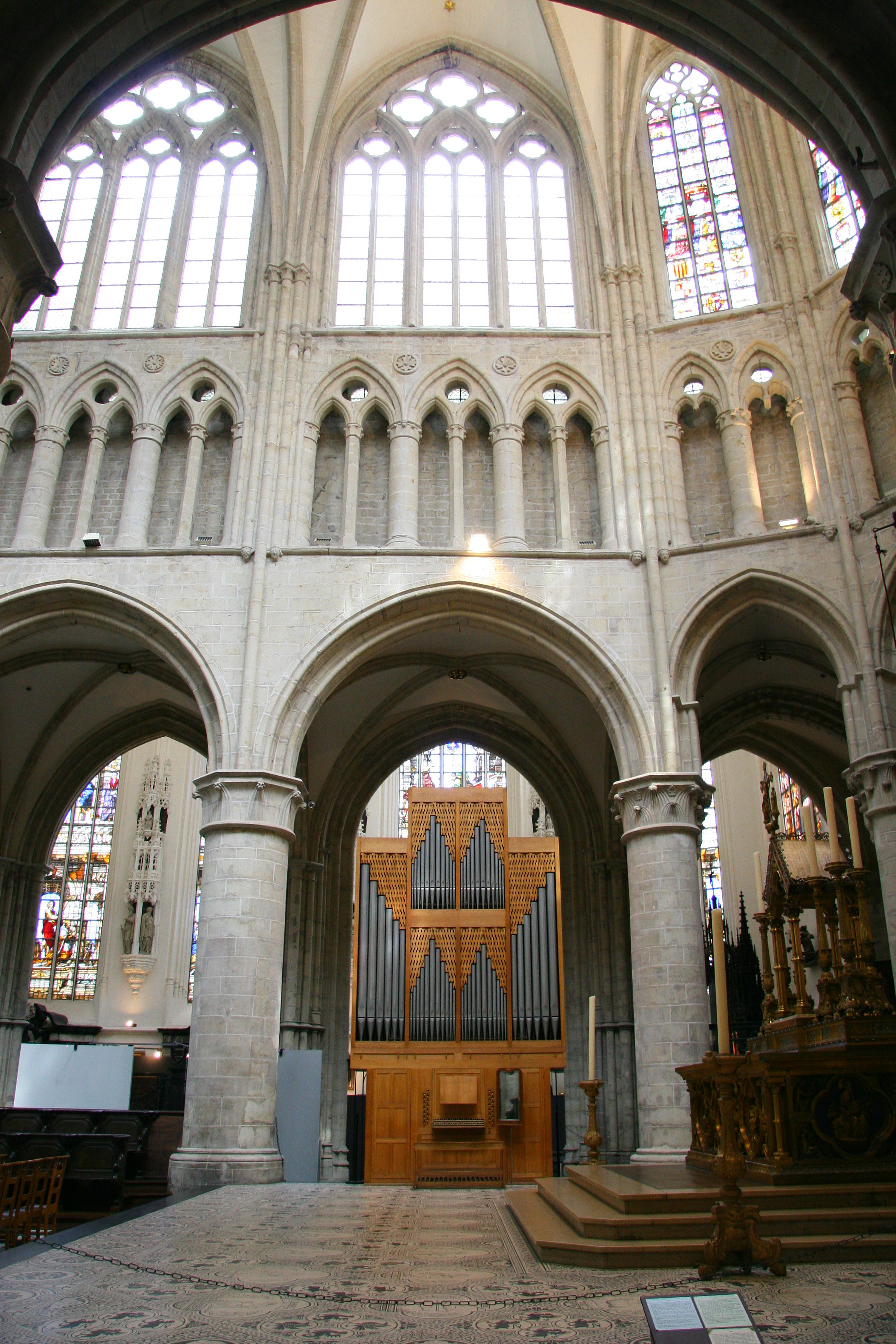 The choir of the St. Michael and Gudula cathedral in Brussels.